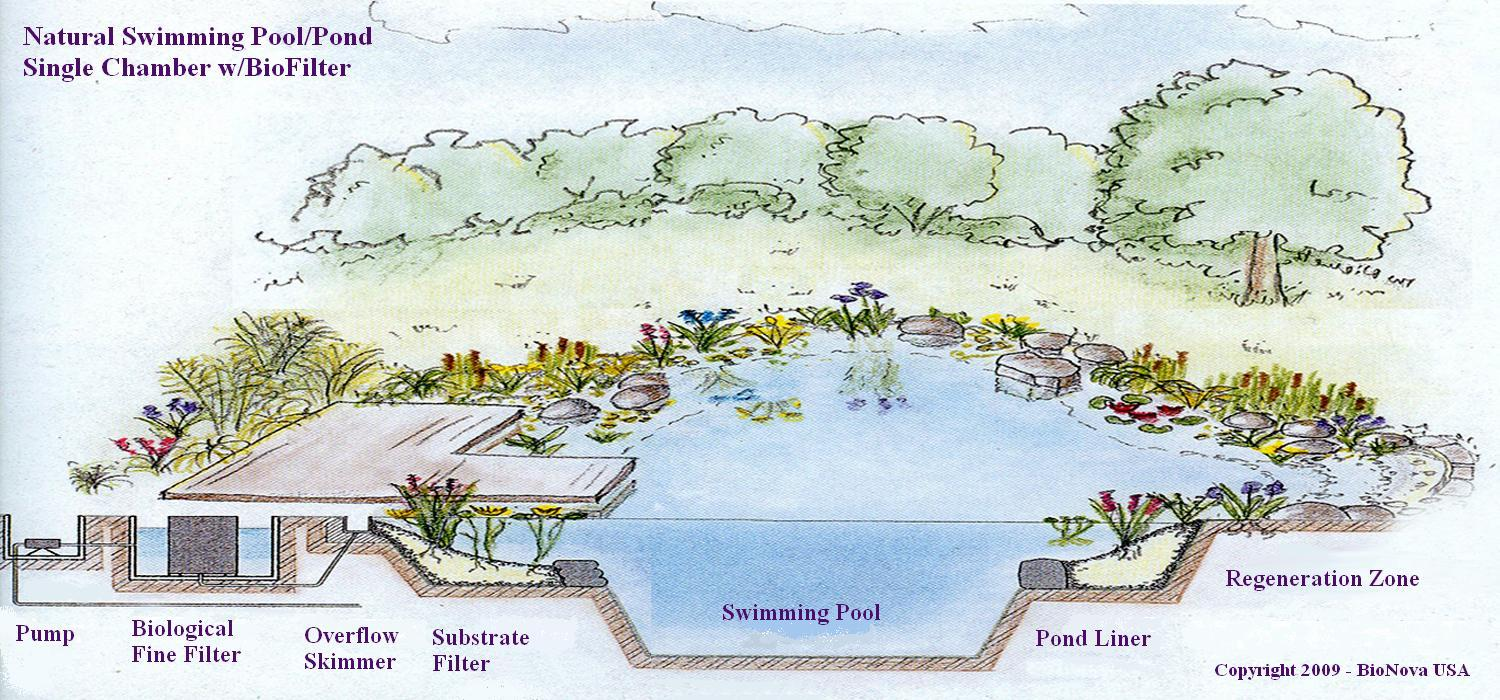 System schematic for a single chamber NSP.